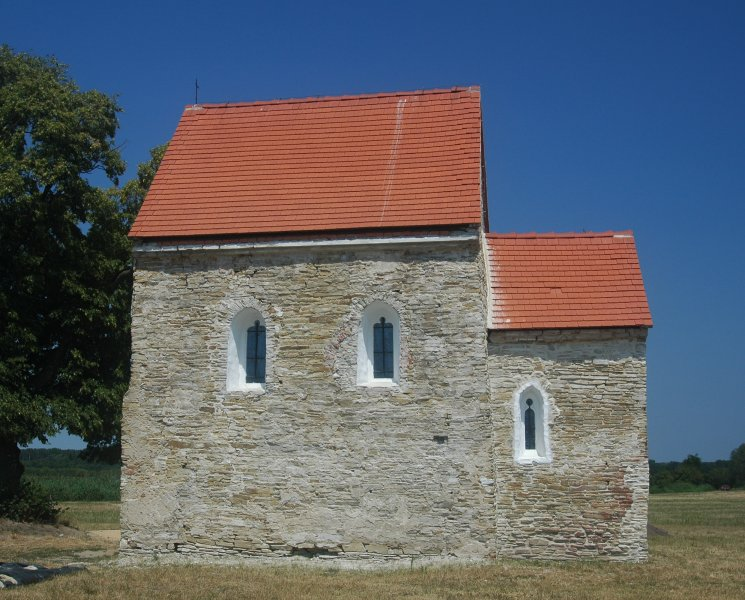 Kopčany, St. Margaret church, 9 st, the only remaining Great Moravian Building